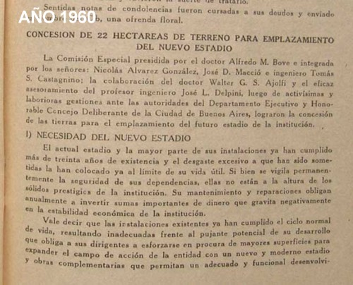 cesion de 22 hectareas de parte de la intendencia de la ciudad de buenos aires a san lorenzo de almagro.